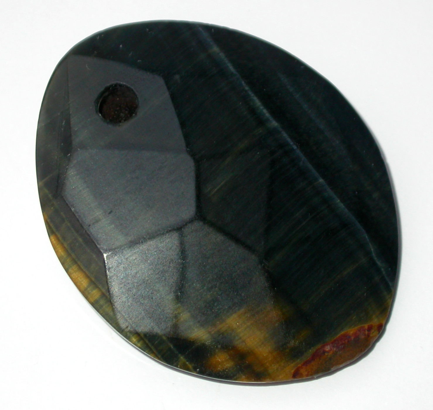 Hawk's eye pendant